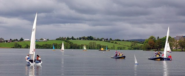 Sailing on Bardowie Loch. It is thought that the loch was created after the Romans quarried the area for stone to build the near by Antonine wall. It is currently used for dinghy sailing by the Clyde Crusing Club.